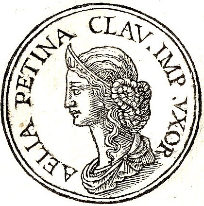 Aelia Paetina was a Roman woman who lived in the 1st century. Her biological father was consul of 4, Sextus Aelius Catus while her mother is unknown.